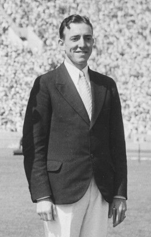 1932 OLYMPIC PENTATHLON WINNERS Vintage Medal Stand Photo